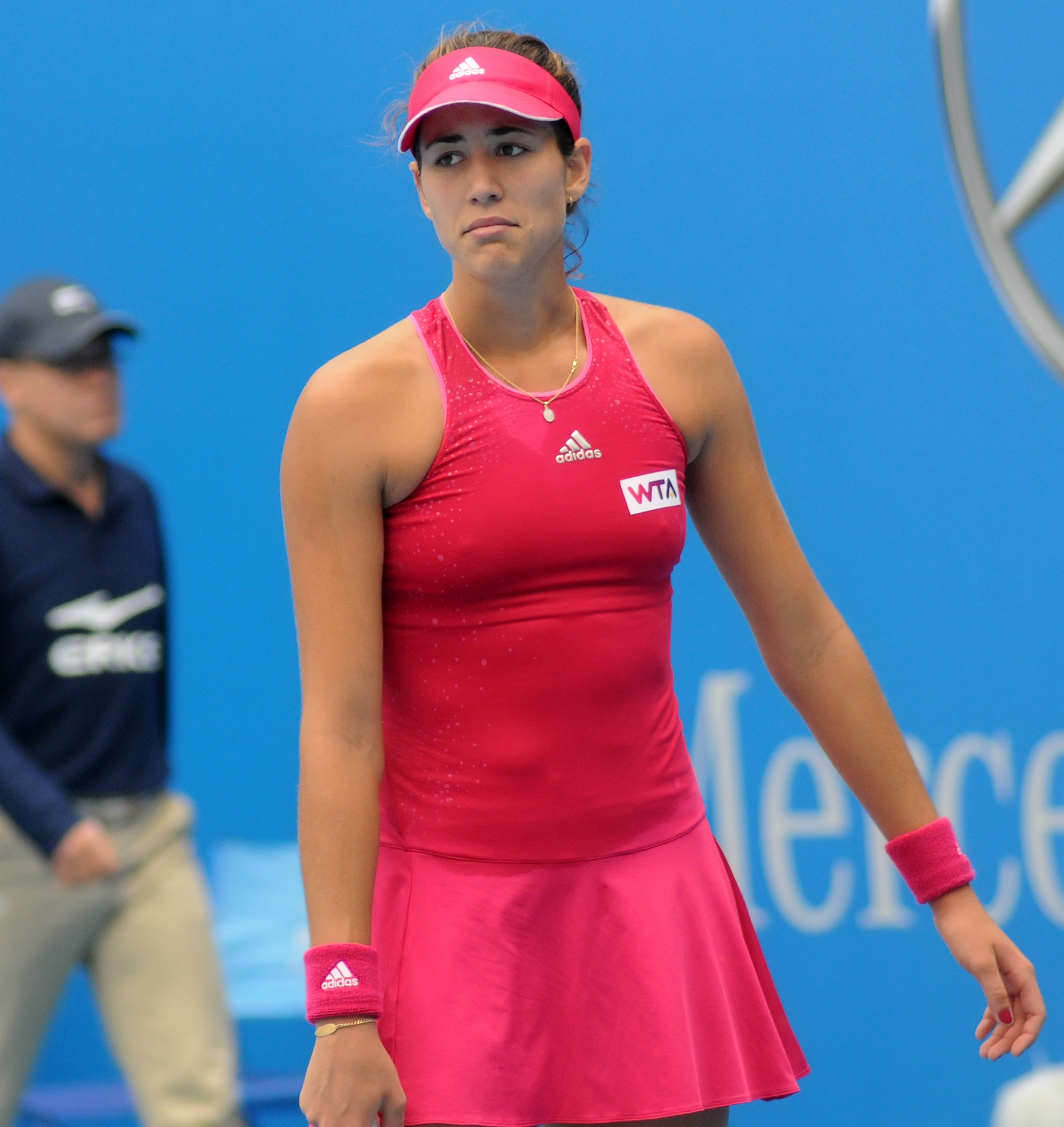 Garbiñe Muguruza at the 2014 China Open